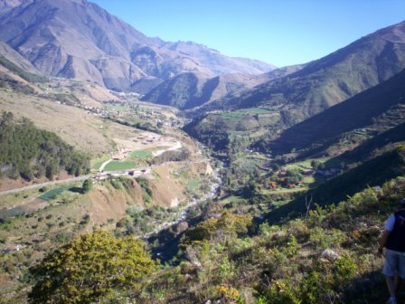 Photo taken from my farm, near the town of Cacute.